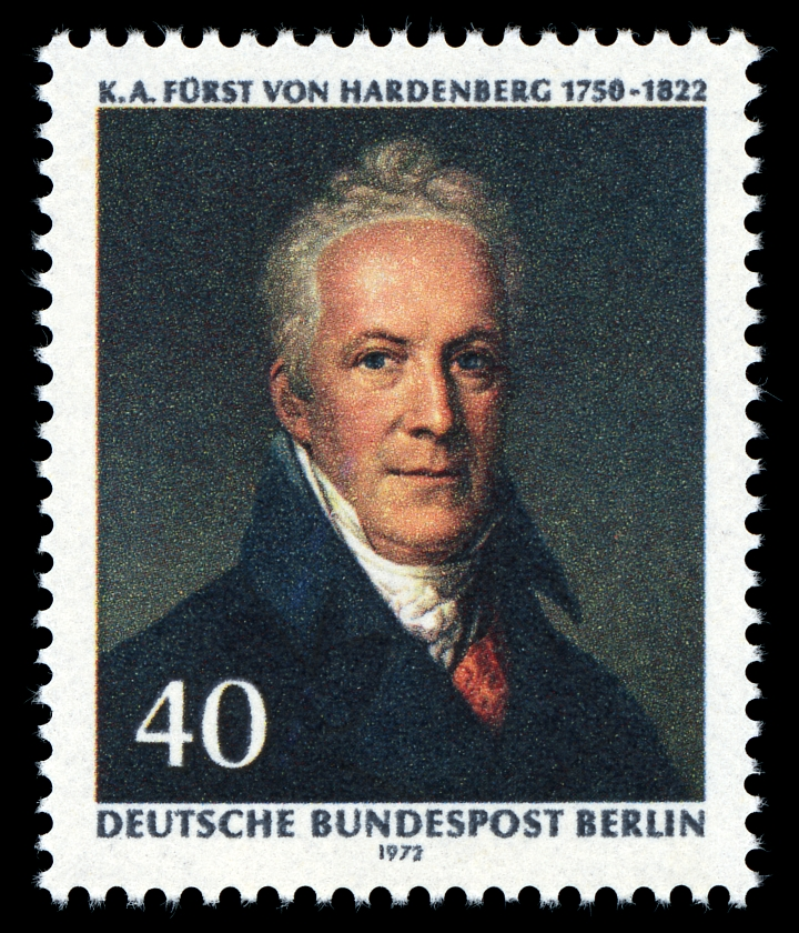 German stamp, showing painting of Karl August von Hardenberg.